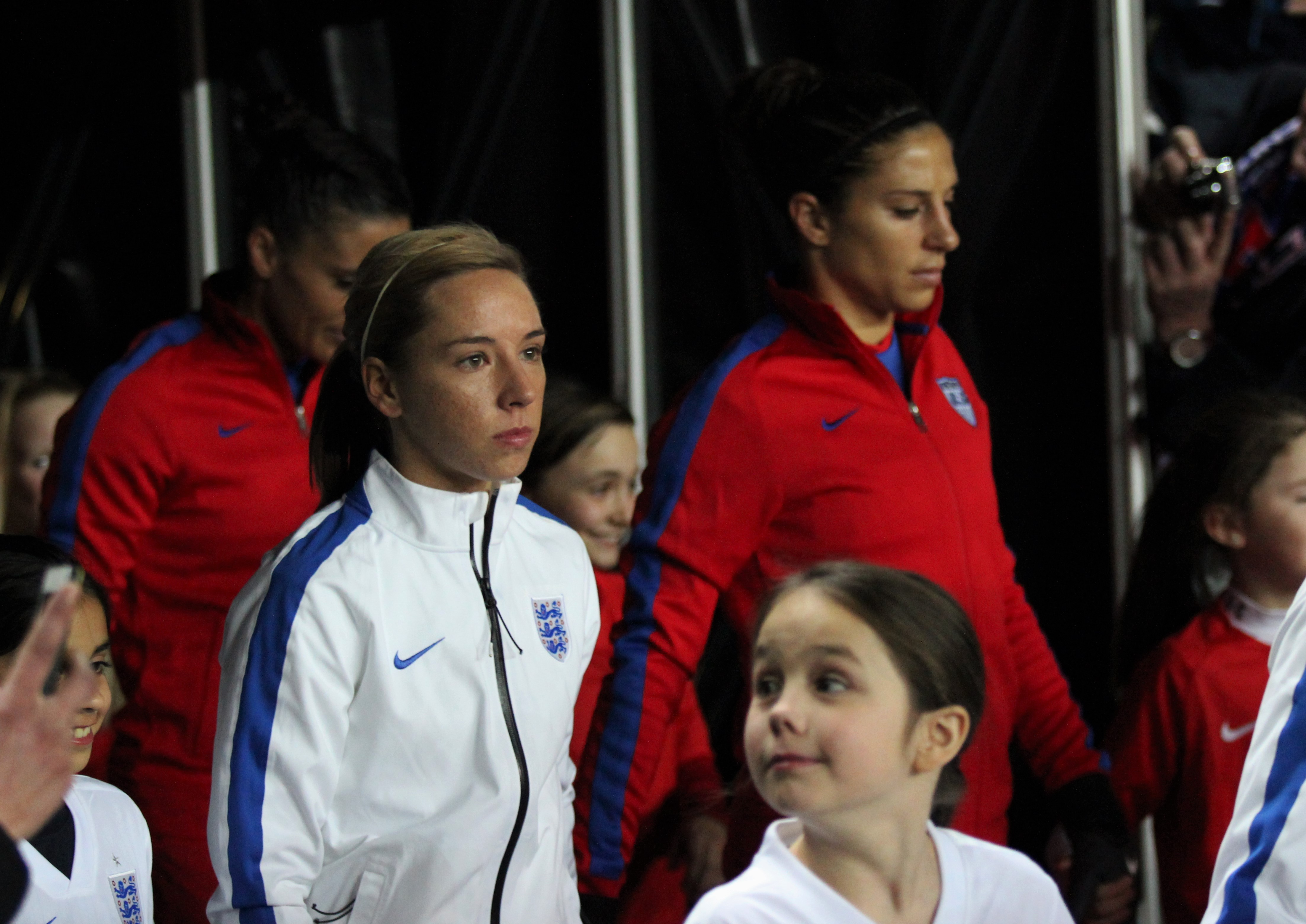 Jordan Nobbs of England Women's before the international friendly against USA.